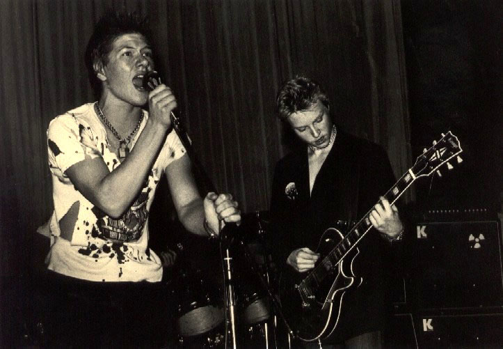 Arabens Anus Folkets Hus Kristinehamn 1980